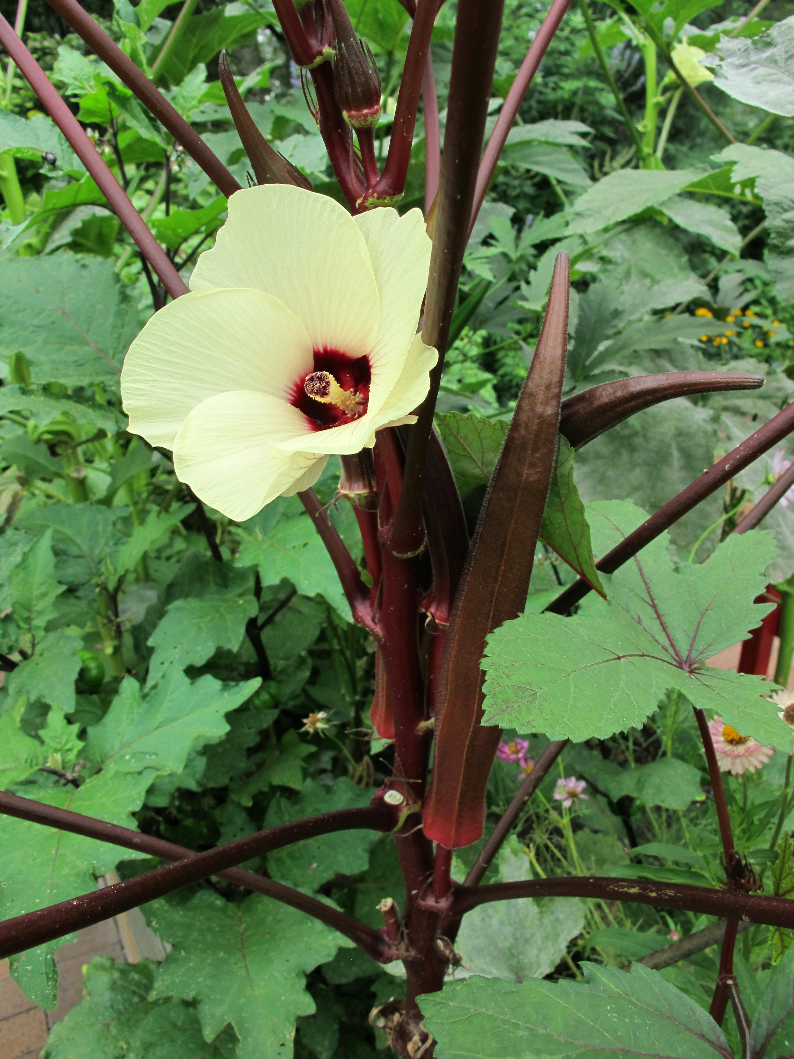 Swindler Cove Park